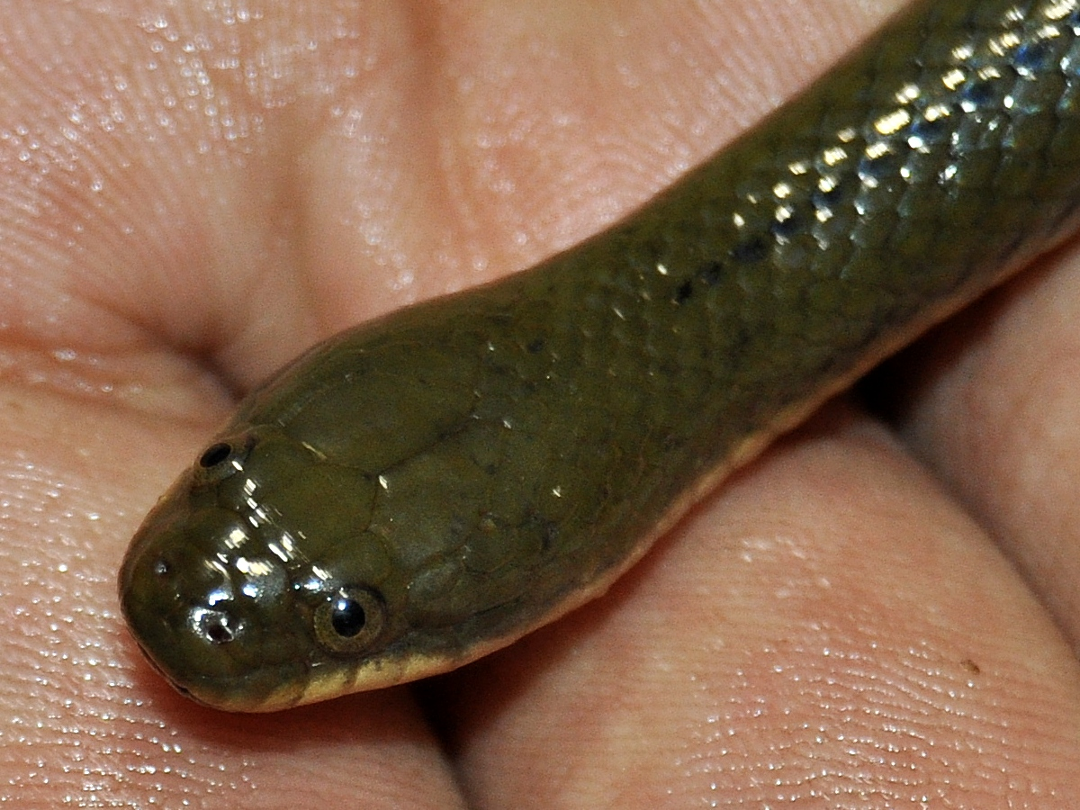 Plumbeous water-snake, Enhydris plumbea; ca. 40cm TL. From Karawang, West Java. Head close up.